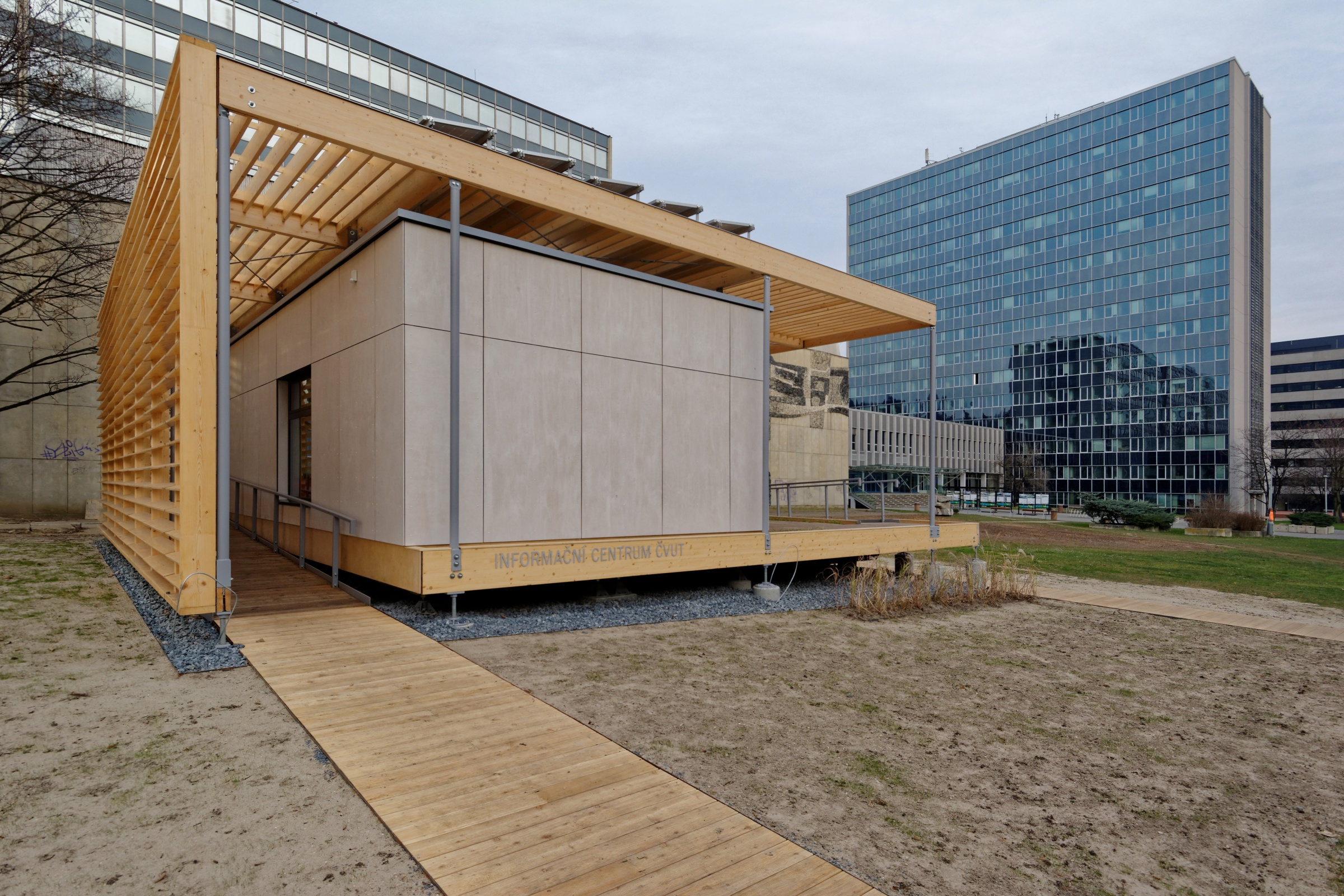 New Information Centre of the CTU in AIR House in CTU campus, Prague, Czech Republic.